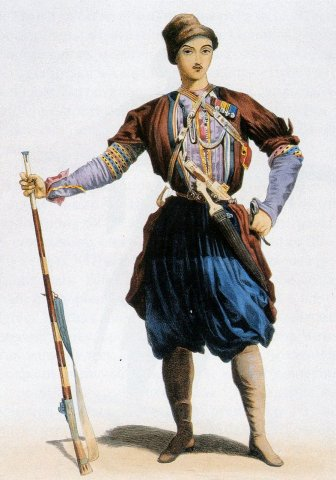 Grigory Gagarin (1810—1893). A Georgian nobleman